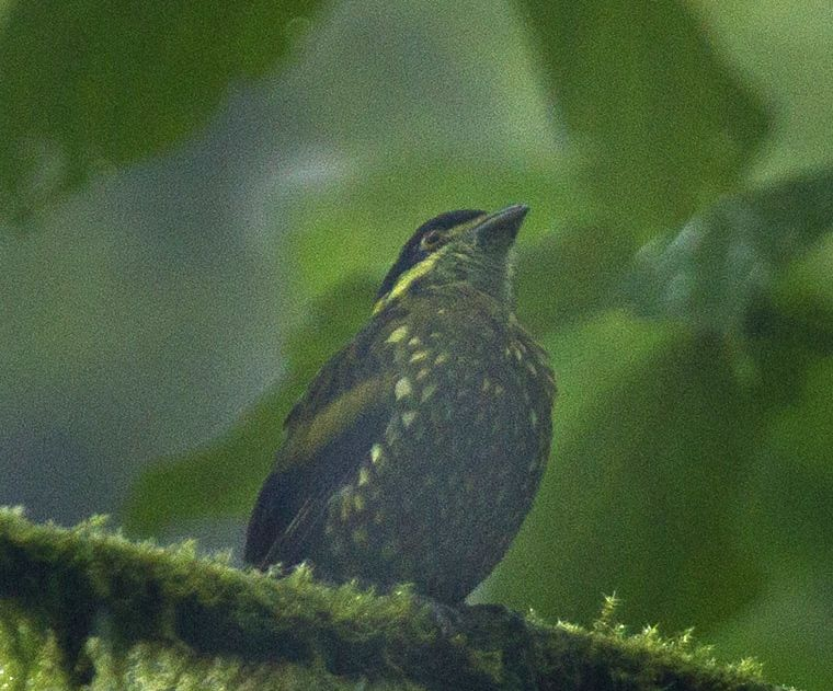 Scaled Fruiteater (Ampelioides tschudii)